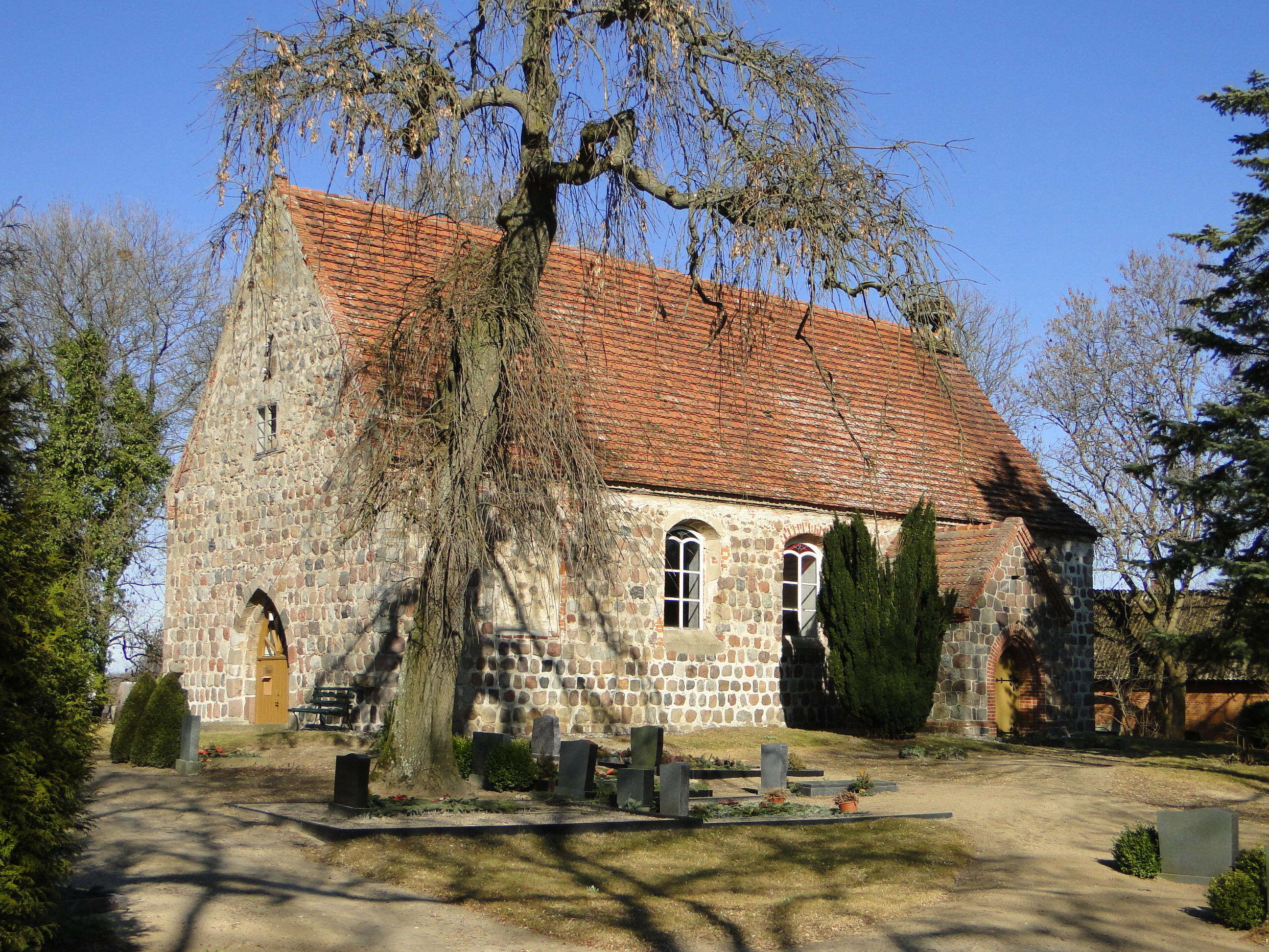 Church in Ballin, district Mecklenburg-Strelitz, Mecklenburg-Vorpommern, Germany